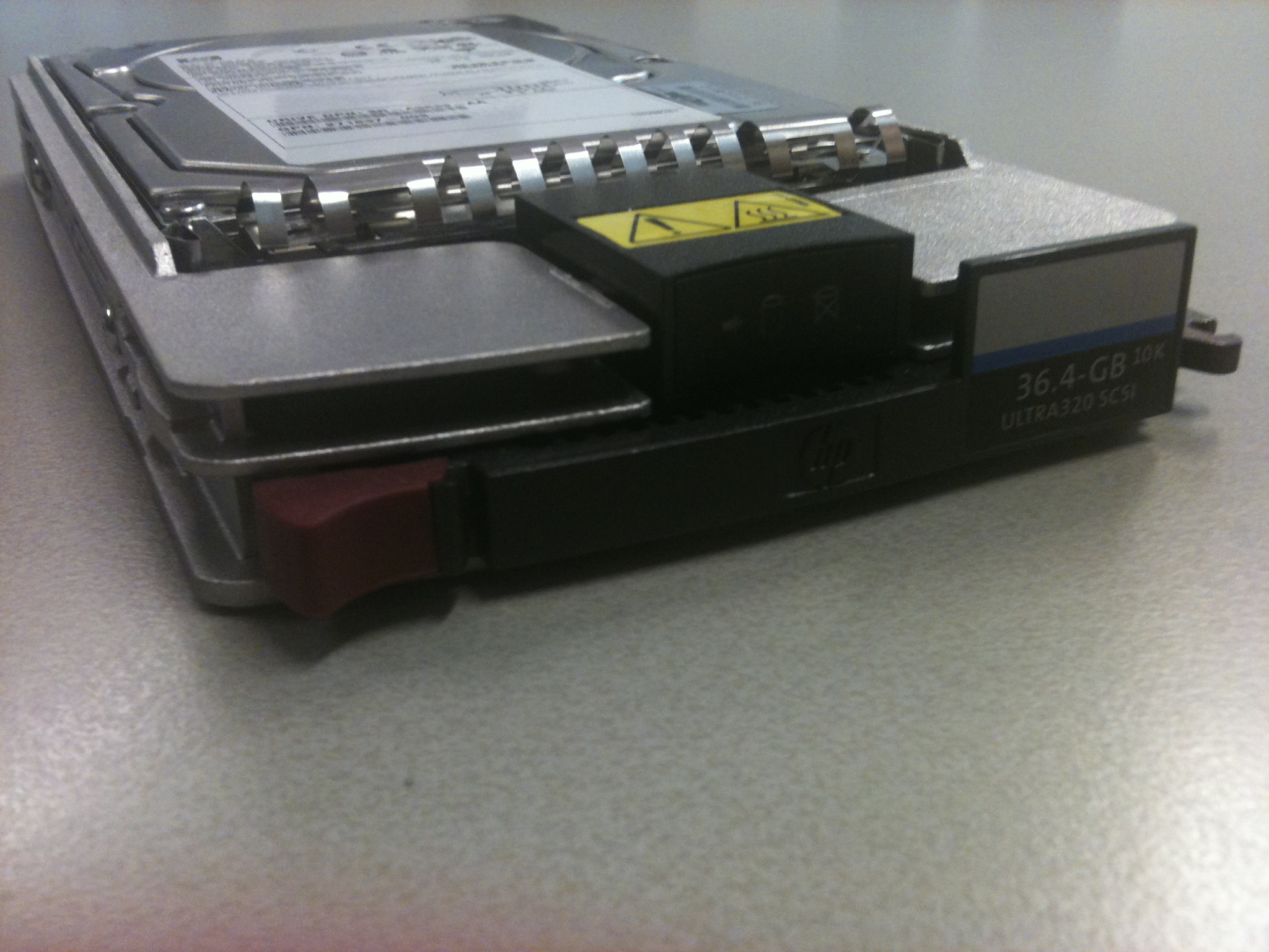 HP Hot Swappable Server Harddisk (Ultra320 SCSI)